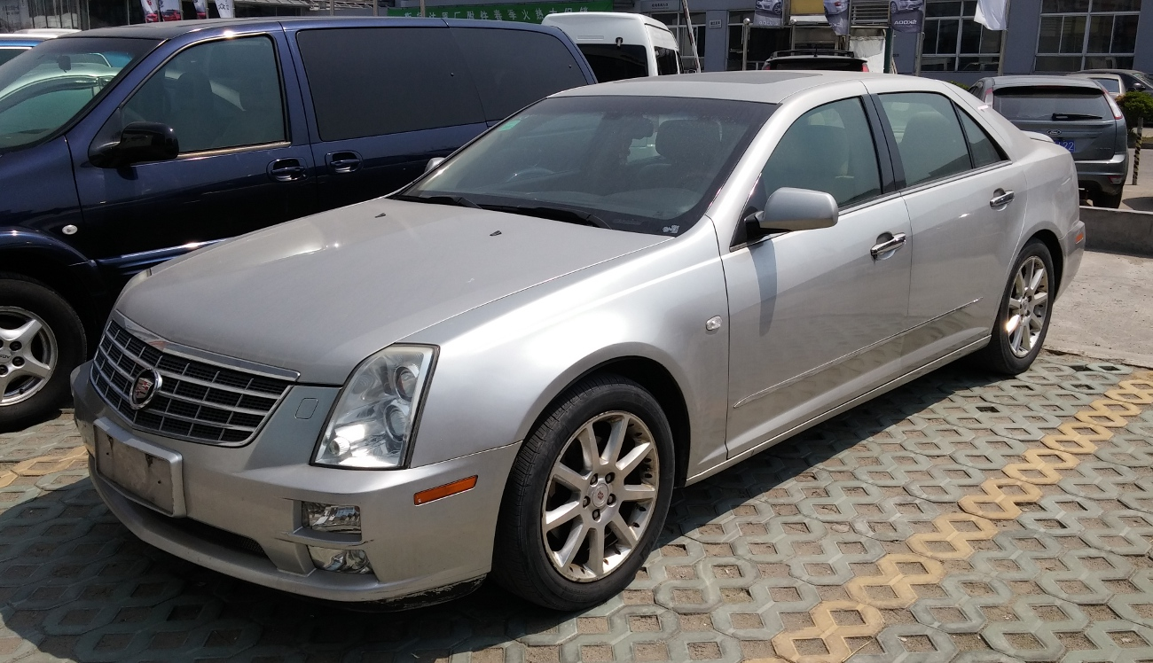 Cadillac SLS photographed in Shanghai, China.